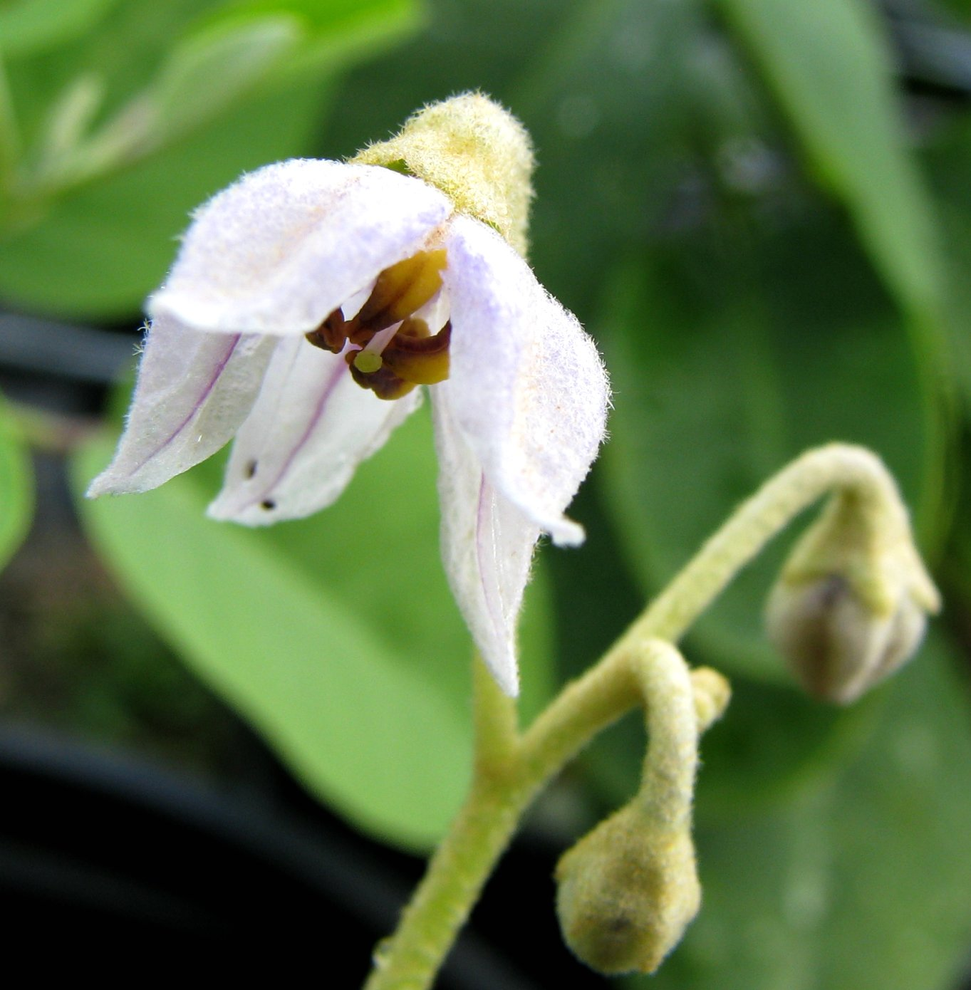 Pōpolo or Nelson's horsenettle Solanaceae Endemic to the Hawaiian Islands Moʻomomi Dunes, Molokaʻi form Oʻahu (Cultivated) NPH00009